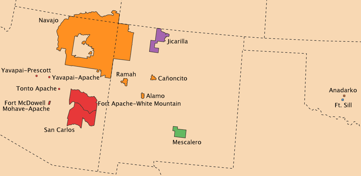 The present-day primary locations of Apachean peoples (including reservations and cities) Note that here Navajo is included as Apachean. Other Apachean peoples are dispersed throughout the continent. In particular, there are Lipan in Texas and a large number of Navajos in New York City. Color indicates association: * Red map regions - Western Apache (Apacheeg ar c'hornôg) Tonto, Coyotero * Orange map regions - Navajo * Blue map regions - Chiricahua, Ndendahe, Mimbreño * Green map regions - Mescalero * Purple map regions - Jicarilla * Yellow map regions - Lipan (Lipek) * Brown map regions - Plains Apache (Kataka c.d. "Kiowa Apache", Apacheeg ar c'hompezennoù)